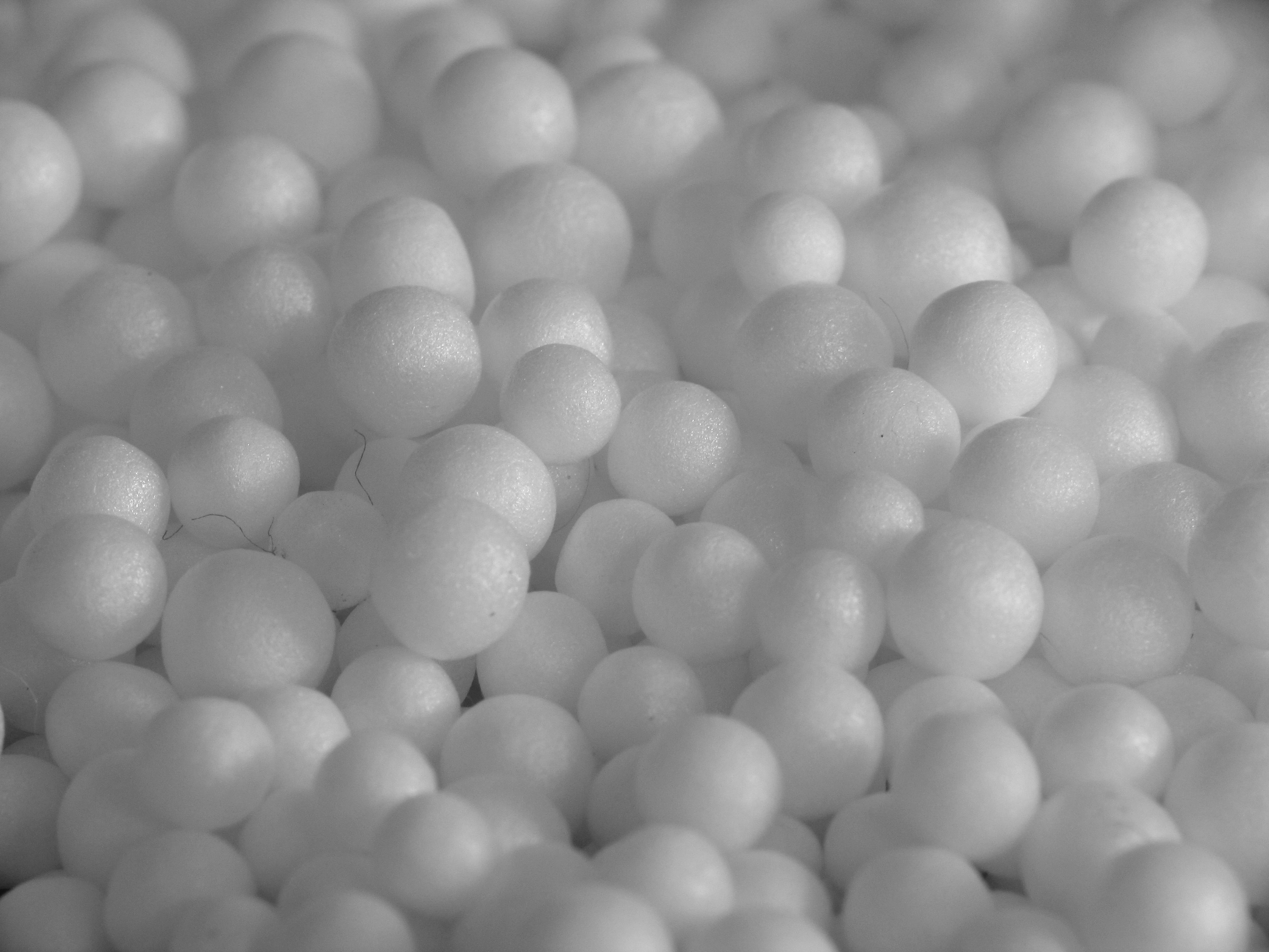 Balls of expanded polysyrene (diameter aprox. 2mm). Canon Powershot SX1 IS with Raynox DCR-250 conversion lens.